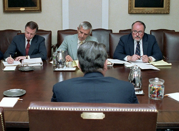 Ronald Reagan in 1984